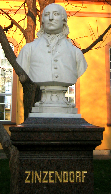 Monument to Nikolaus Ludwig von Zinzendorf in Herrnhut, Germany